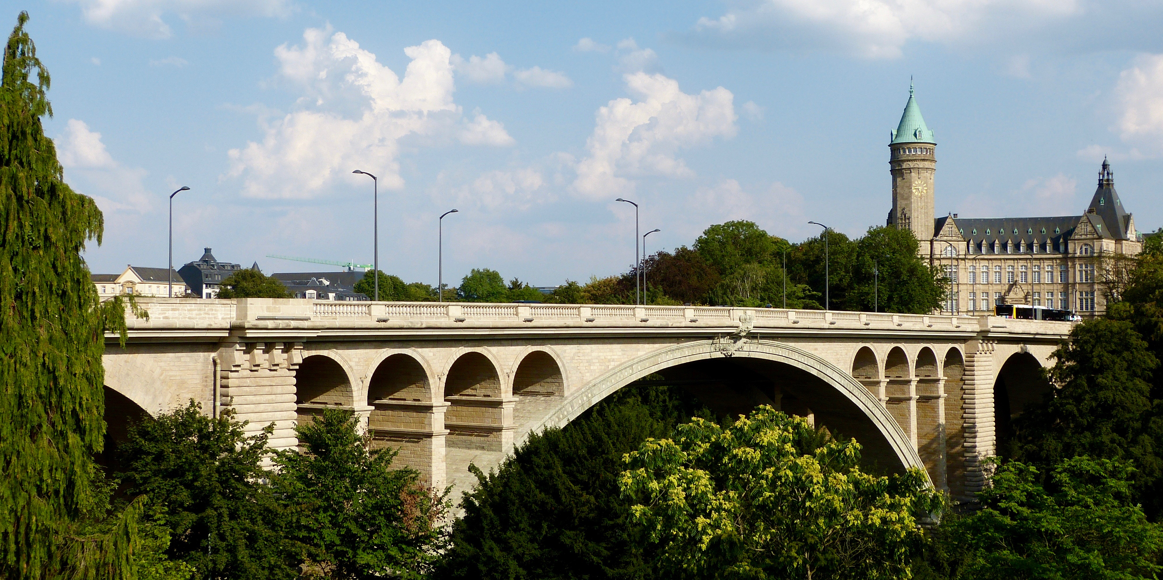 The Adolphe Bridge seen here in August 2018 following the completion of major renovation works, including; the suspension between its arches of a lower deck for bicycle and pedestrian use; the reduction of road traffic lanes with their conversion to one-way use; and the re-installation of tram rails, as seen in the original 1903 bridge. To the right of the bridge is 1, Place de Metz, today a museum providing a history of the Banque et Caisse d'Epargne (BCEE).